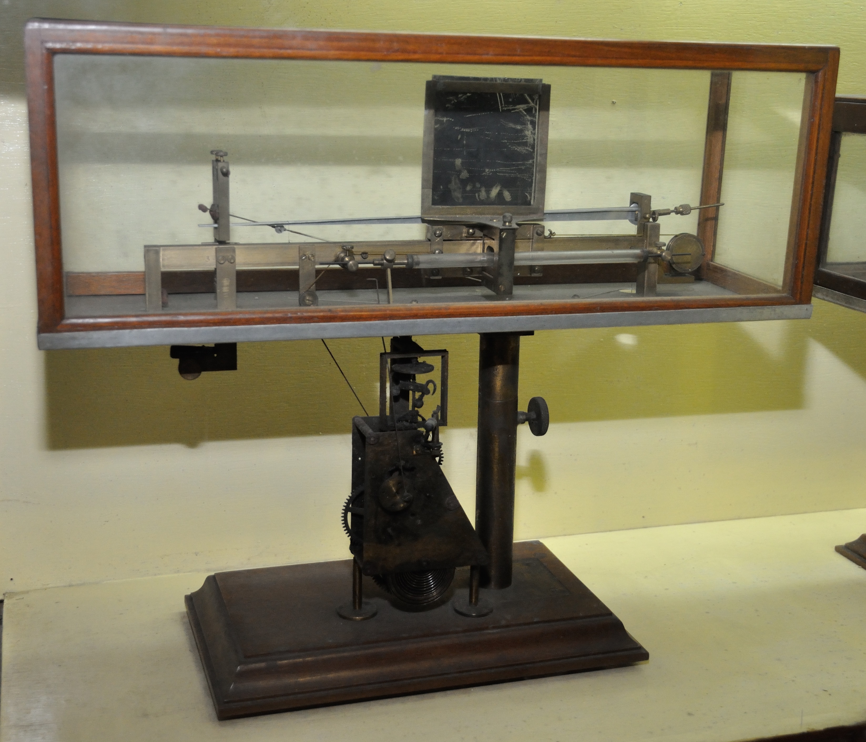 Acharya, Sir Jagadish Chandra Bose or Jagadis Chunder Bose (30 November, 1858 – 23 November, 1937), himself started the display of his own instruments which, as a continuous process, made their way into the present technological museum in the year 1986 - 87. This museum which is the part of the Bose Institute, Kolkata, is displaying some of the instruments designed, made and used by Sir J. C. Bose with his personal belongings, memorabilia and an exhibition on his Life and Works.